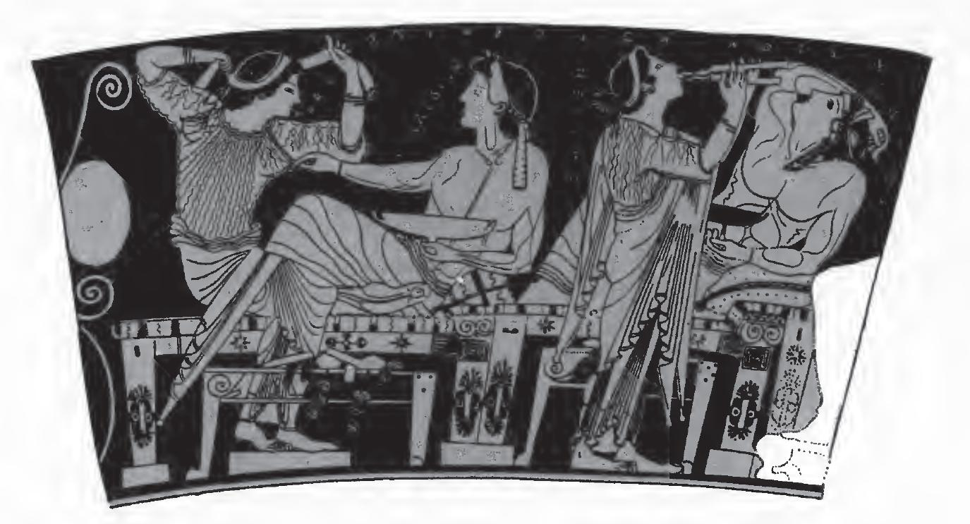 Original caption: «The painter Smikros and his companions. Krater [sic.] in the Brussels Museum» Illustration from the side A of a stamnos, attributed to Smikros by signature. Brussels, Musées Royaux d'art et d'histoire A717.